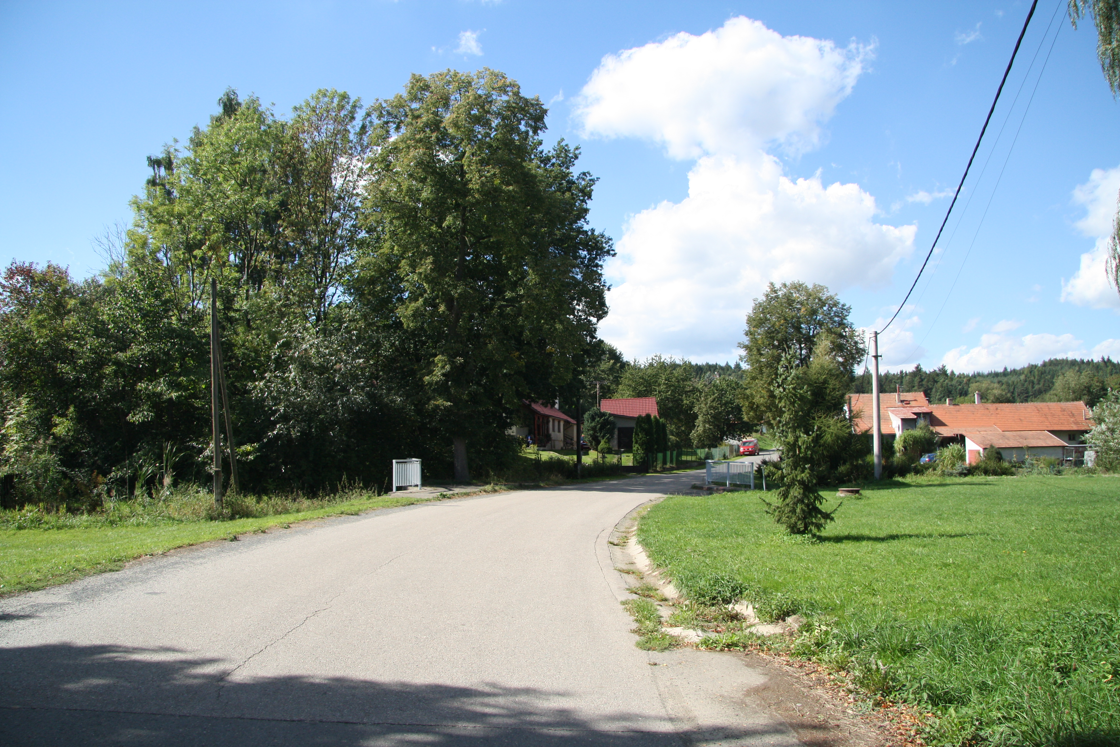 Center of Hořetice, Křečovice, Benešov District.